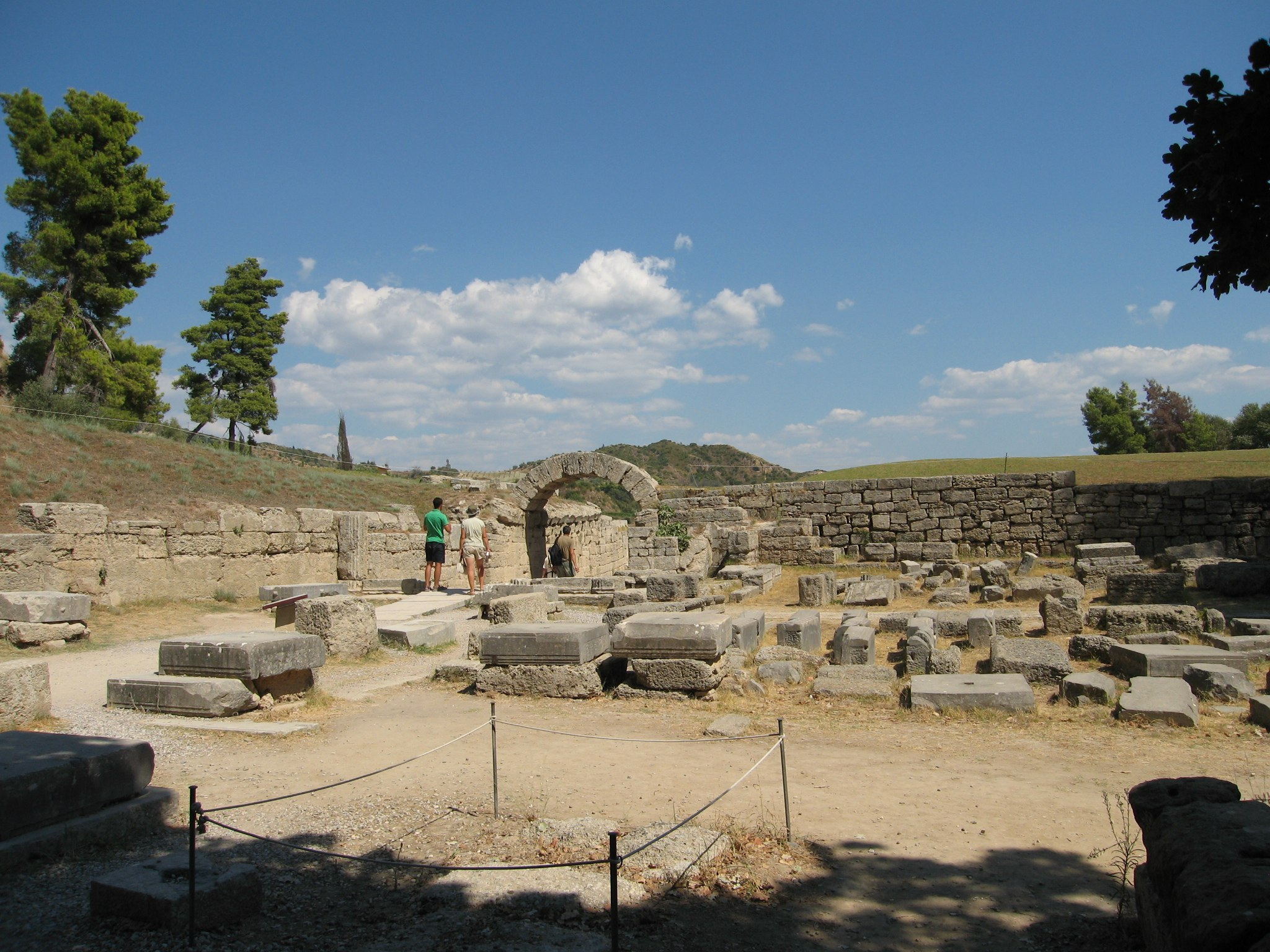 Olympia, Greece